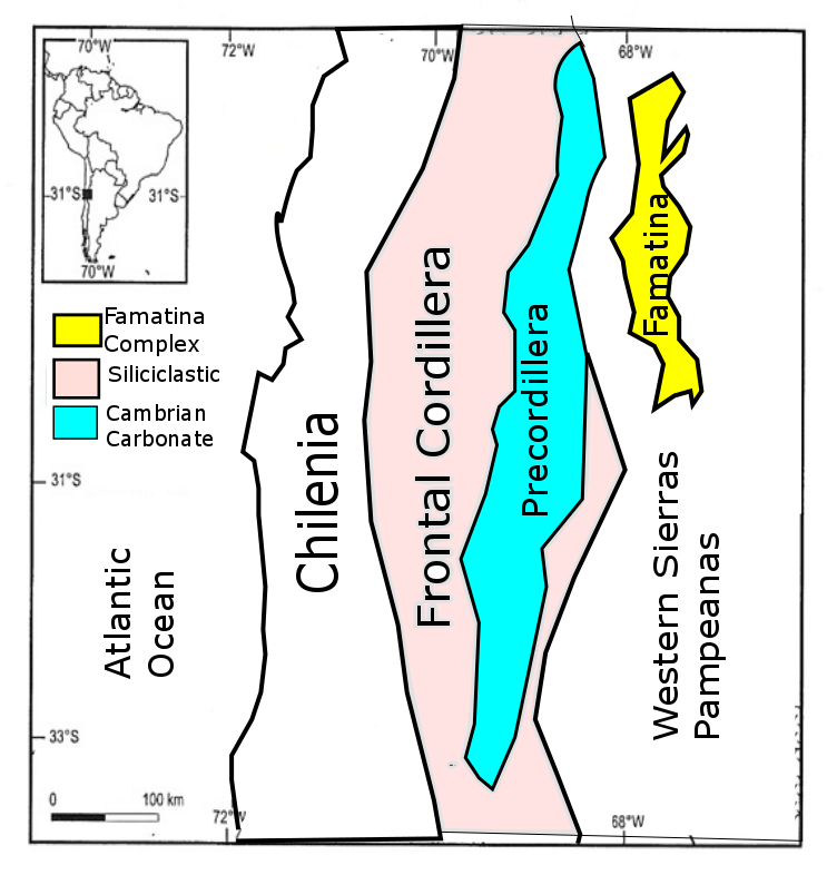 Simplified map showing location of present Precordillera and surrounding geological complex